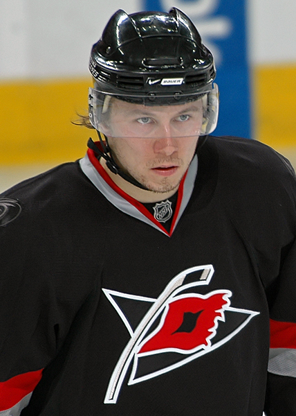 Jussi Jokinen of the Carolina Hurricanes scores the game-winning shootout goal to defeat the Buffalo Sabres on February 28, 2009.